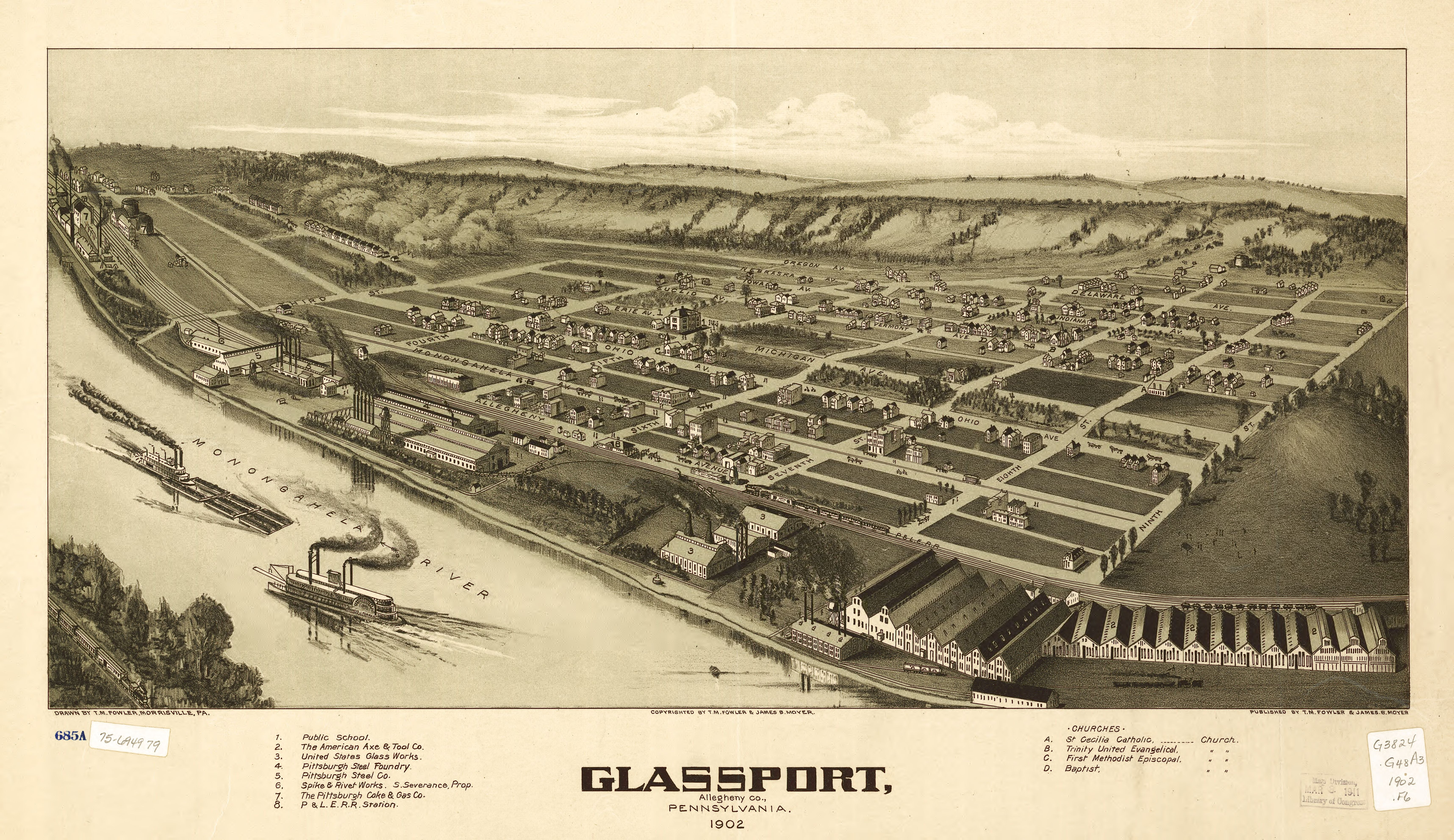 Perspective map not drawn to scale. Bird's-eye-view. LC Panoramic maps (2nd ed.), 781 Available also through the Library of Congress Web site as a raster image. Indexed for points of interest. AACR2